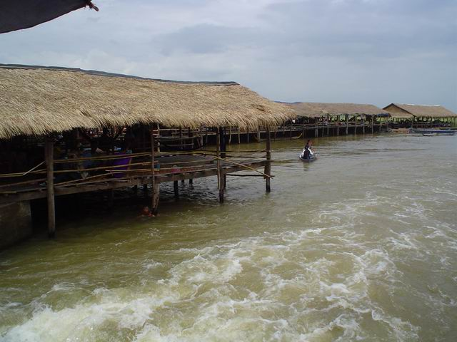 Picture taken in Cambodia on August 11, 2006 for the work Cambodian natural resources. It is my own work. It is a river in Banteay Meanchey Province. Albeiro Rodas